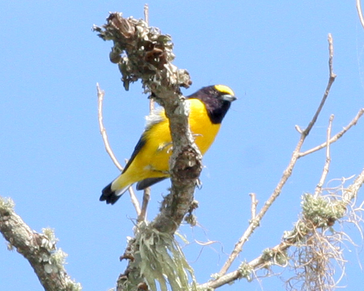 Purple-throated Euphonia (Euphonia chlorotica) at Ibera, Argentina.